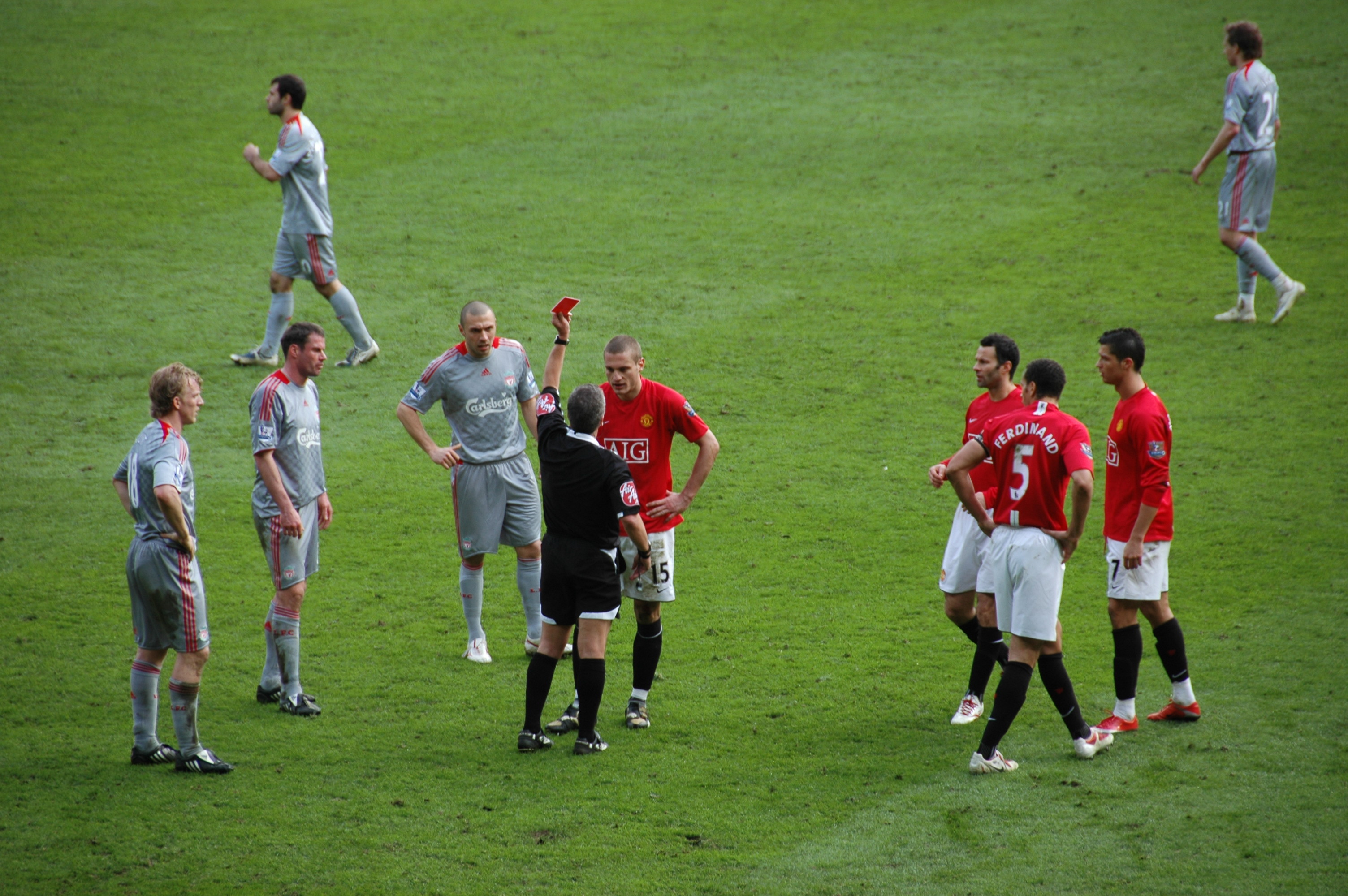 Referee Alan Wiley shows Nemanja Vidic of ManUtd the Red Card during the Premier League match at Old Trafford (Manchester) between Manchester United FC and Liverpool FC on 14 March 2009. Manchester United 1 Liverpool 4